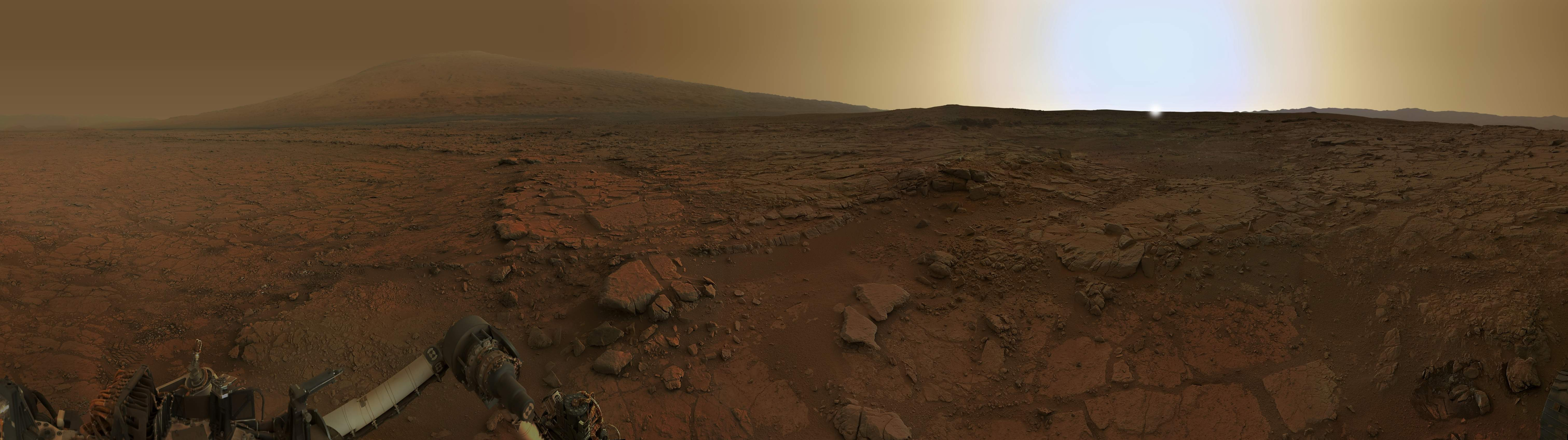 Mosaic of MastCam pictures taken by the MSL/Curiosity rover on Mars, on Sols 170 and 176 of its mission (27 January and 3 February 2013), giving an "Impression Soleil Couchant" on Mars with real colors and the Martian sky having its delicate blue halo just above the Sun. Image reconstructed from real color imaging data: only the position of the Sun was added because the original image there was overexposed.